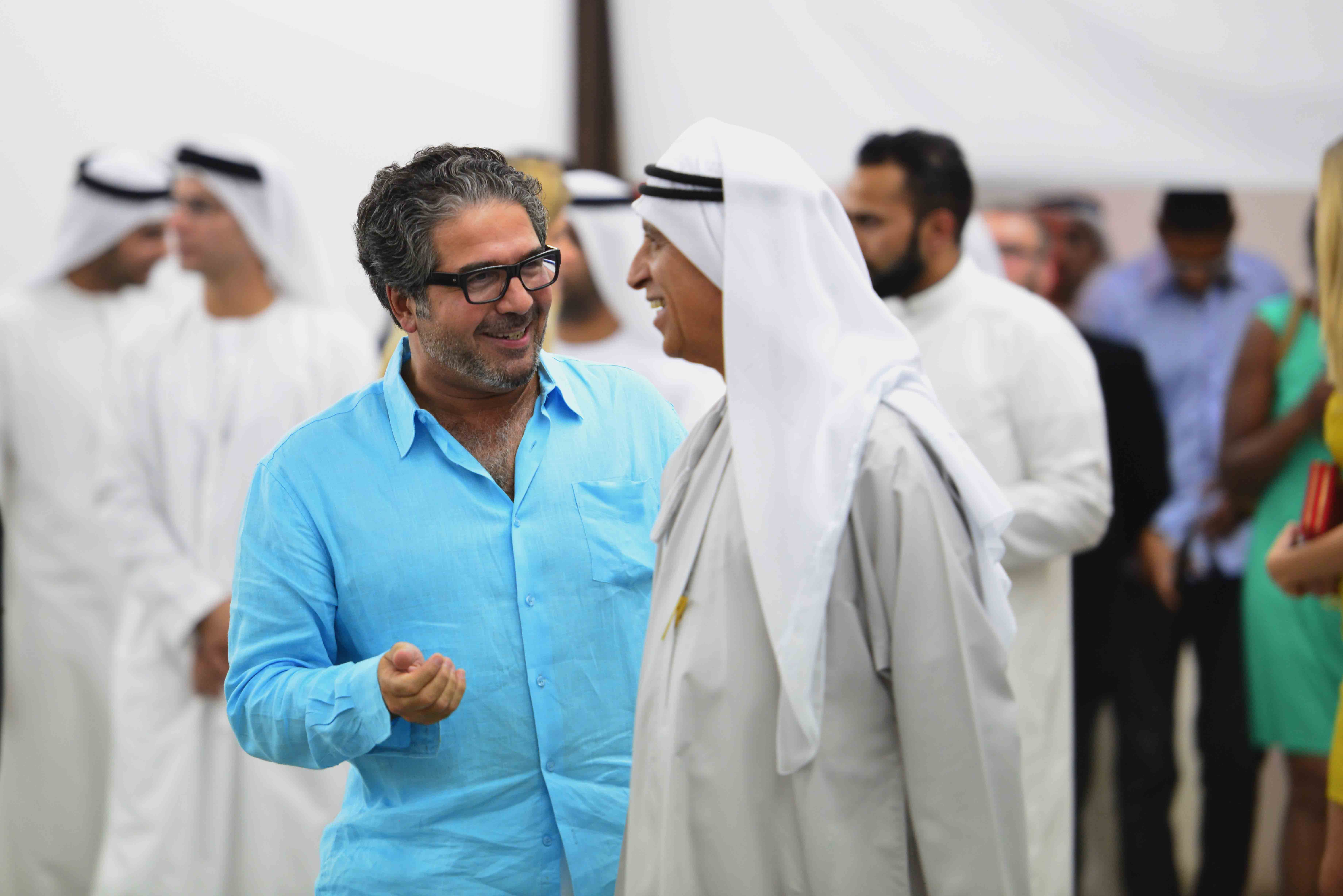 Founder Ramin Salsali